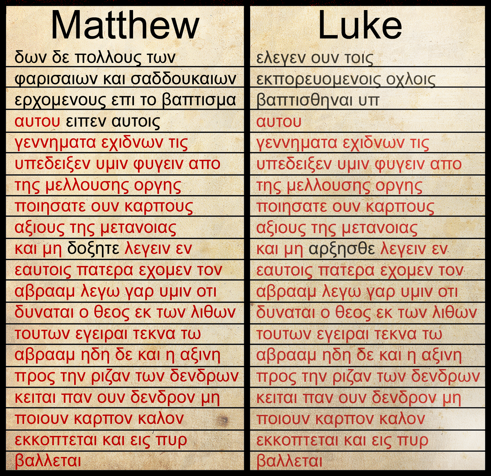 Comparison of Matt 3:7-10 and Luke 3:7-9. Common text highlighted in red. Text is from 1894 Scrivener New Testament which is in the public domain.